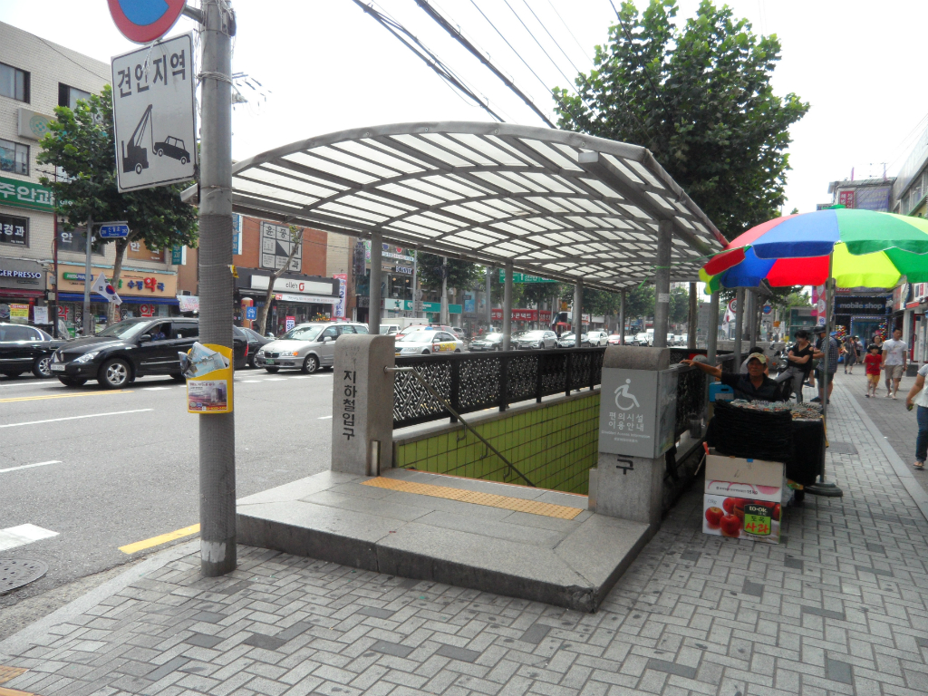 Exit of Sinjeongnegeori Station